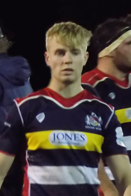 Matt Protheroe